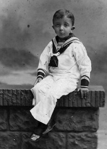 Roberto Weiss cerca 1911